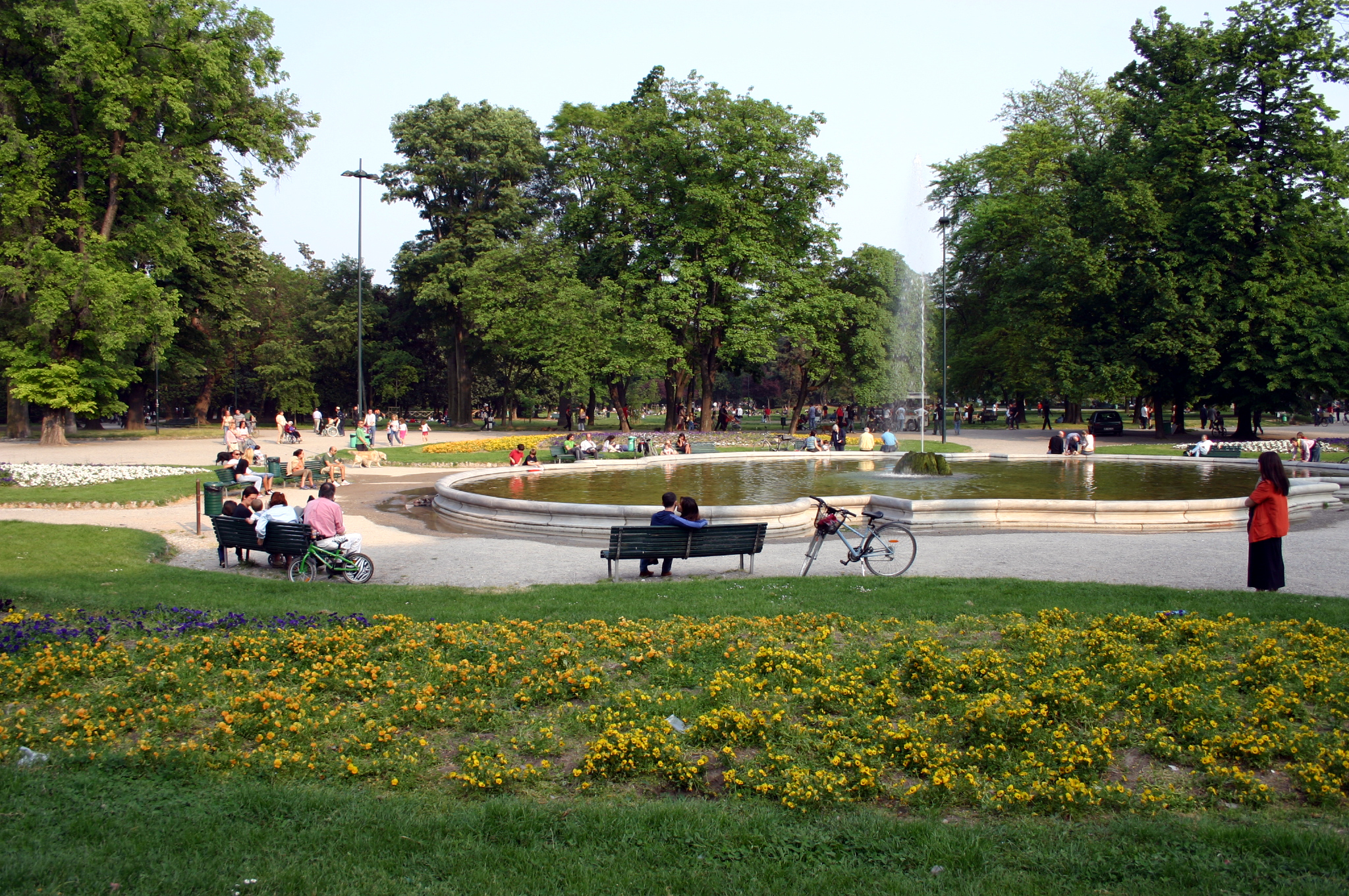 "Giardini pubblici di Porta Venezia" park, in Milan, Italy. Picture by Giovanni Dall'Orto, April 22 2006.